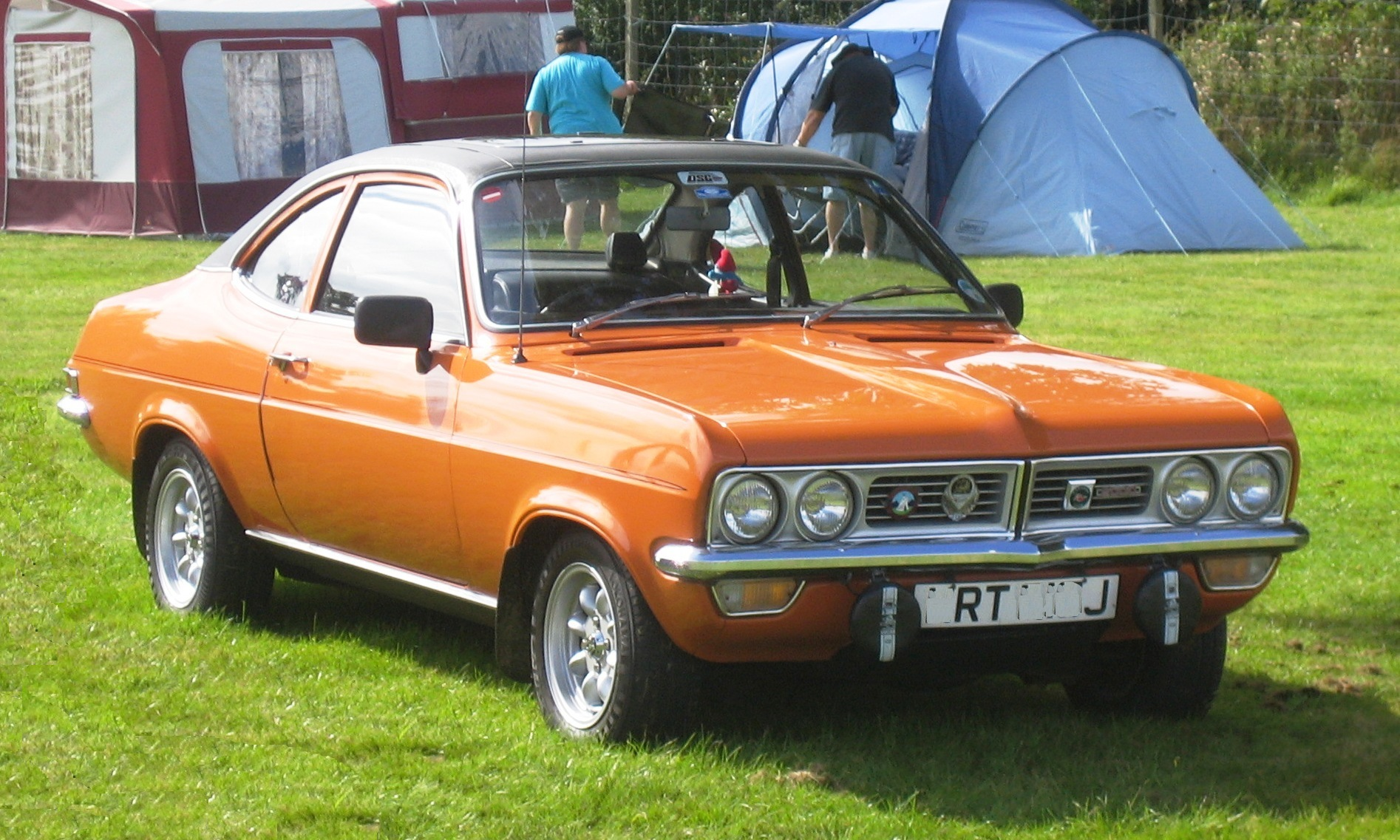 Vauxhall Firenza in a field in Herfordshire. This example is relatively unimproved visually or else relatively faithfully restored at least to this casual observor